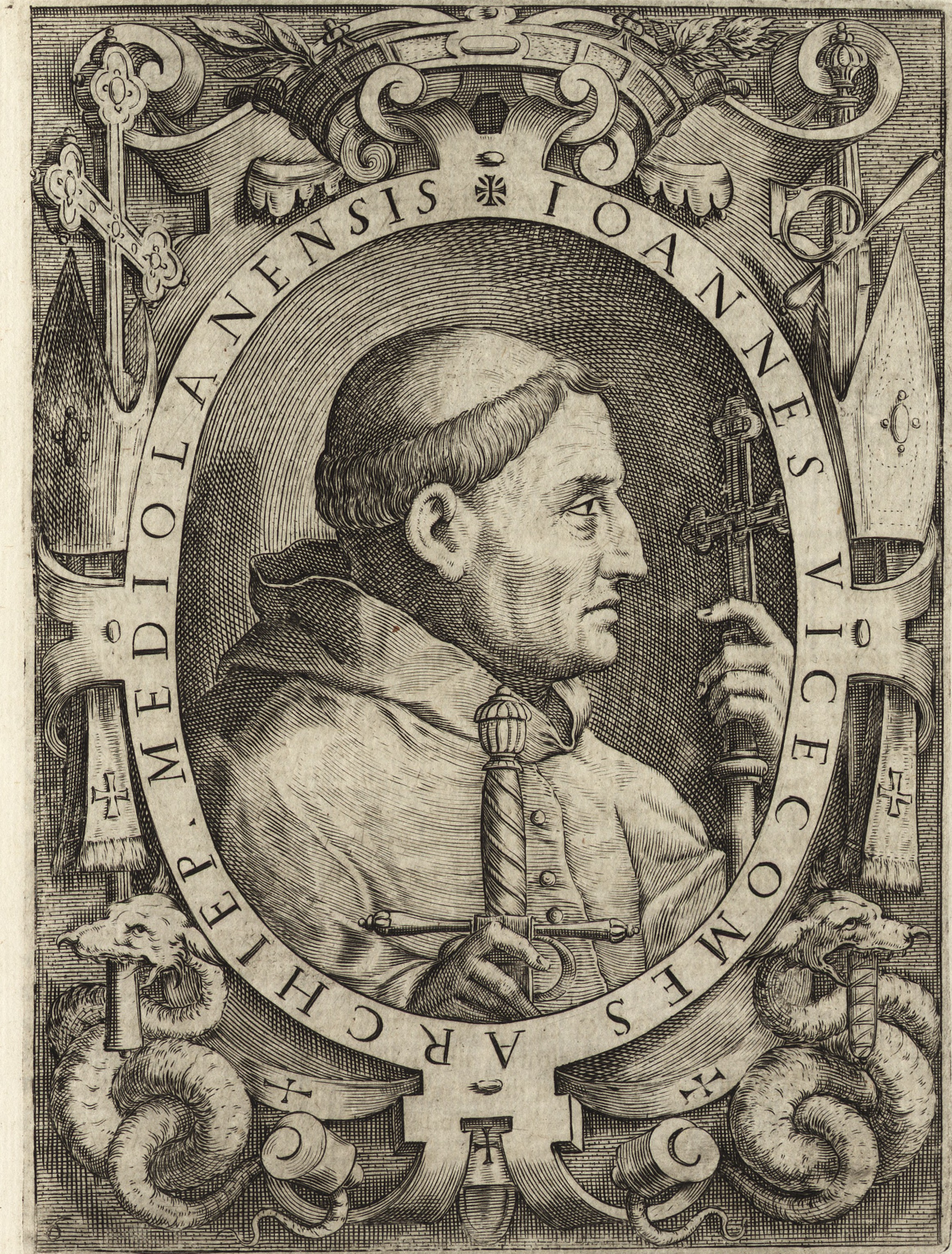 Title: Le vite de i dodeci visconti che signoreggiarono Milano Year: 1645 (1640s) Authors: Giovio, Paolo, 1483-1552 Domenichi, Lodovico, 1515-1564 Bianchi, G. P. (Giovanni Paolo) Subjects: Visconti family Nobility Publisher: In Milano : In casa di Gio. Battista Bidelli Text Appearing Before Image: VITA Text Appearing After Image: Glouanni Arciuefcouo fedì ritrarè nellantica Capella dellArcmefcouàtò dàlui fabricato, auanti vnimaeine della Madonna. E fi vede parimente la fuaeffigie intagliata di baffo ruieuo (opra il fuofepolcro di marmo roflb neiDuomo di Milano # L VITA 8z